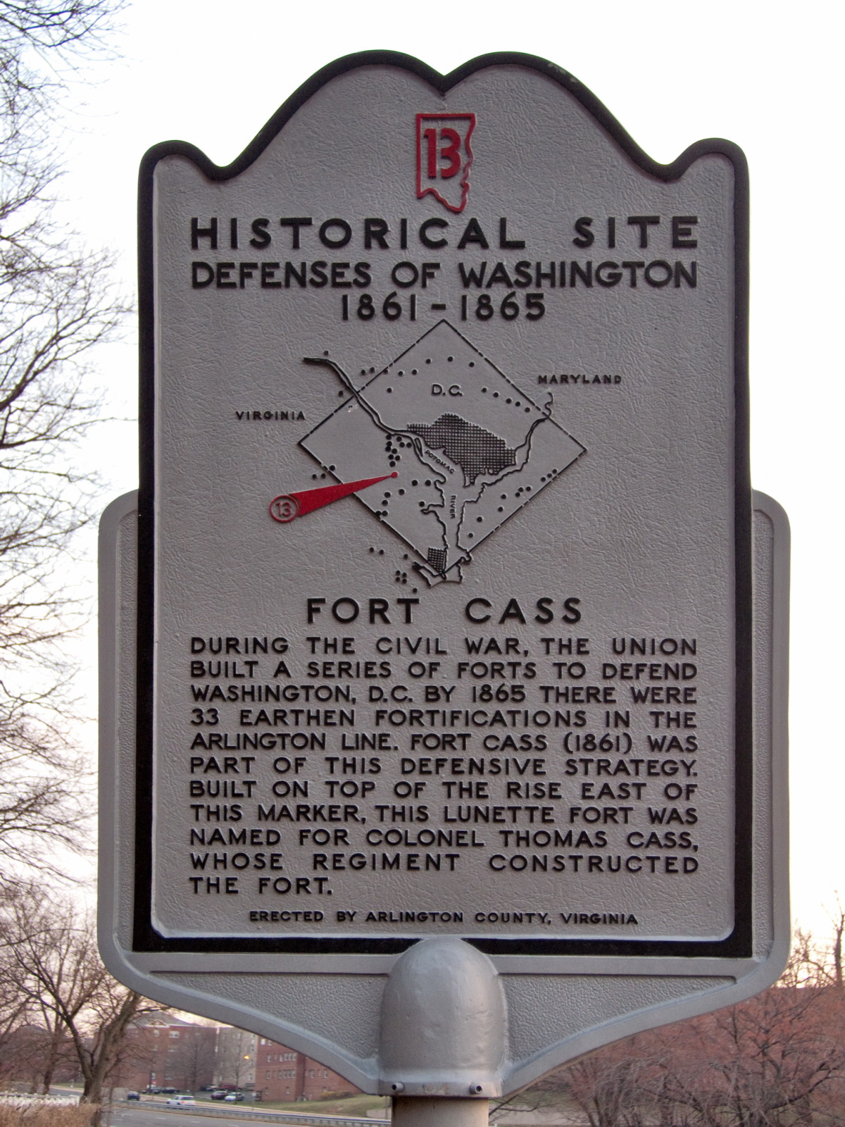 Inscription: Historical Site Defenses of Washington 1861-1865 Fort Cass During the Civil War, the Union built a series of forts to defend Washington, D.C. By 1865 there were 33 earthen fortifications in the Arlington Line. Fort Cass (1861) was part of this defensive strategy. Built on top of the rise east of this marker, this lunette fort was named for Colonel Thomas Cass, whose regiment constructed the fort. This marker is included in the Defenses of Washington marker series.